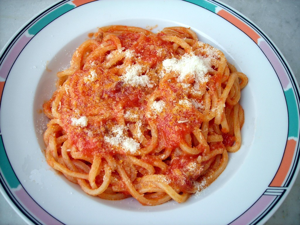 Strangozzi al ragù, first course, Perugia, Umbria, Italy